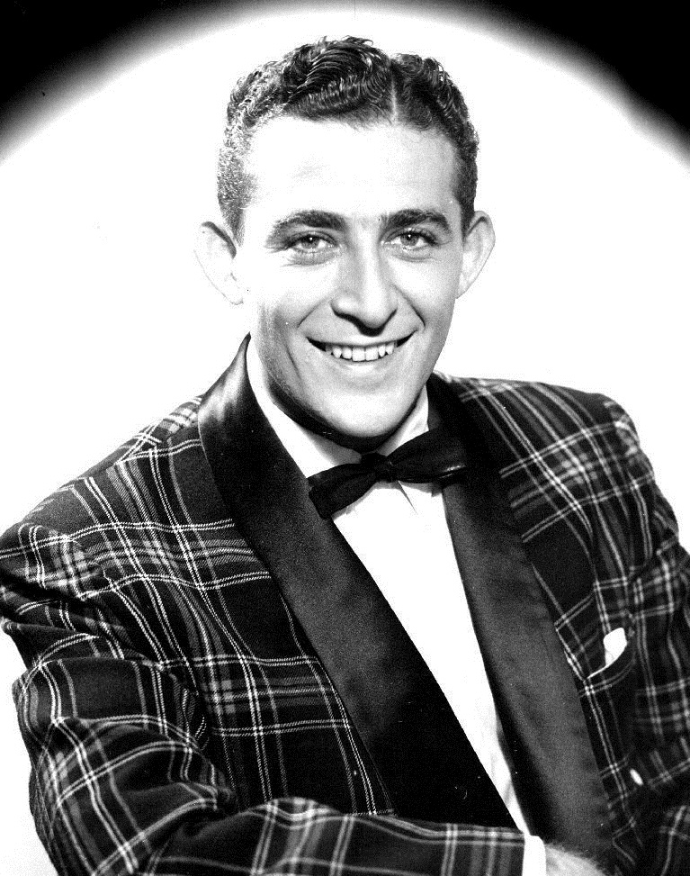 photo of Joe Harnell